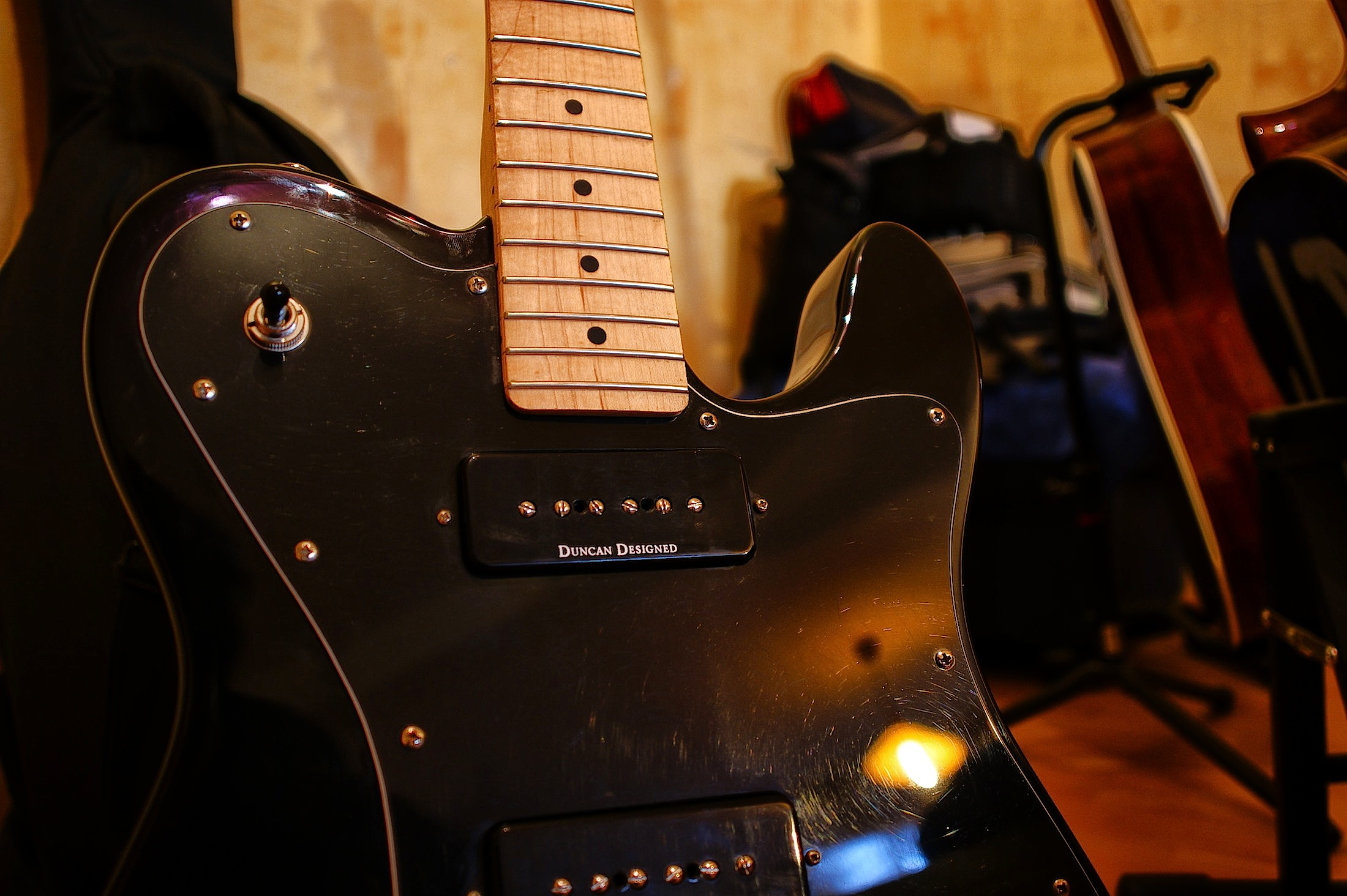 Fender Telecaster